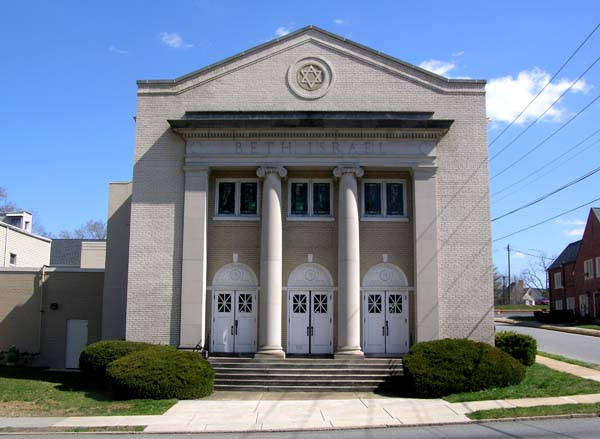 Beth Israel Synagogue in Roanoke, Virginia, USA from the west across Franklin Road in the Old Southwest neighborhood.